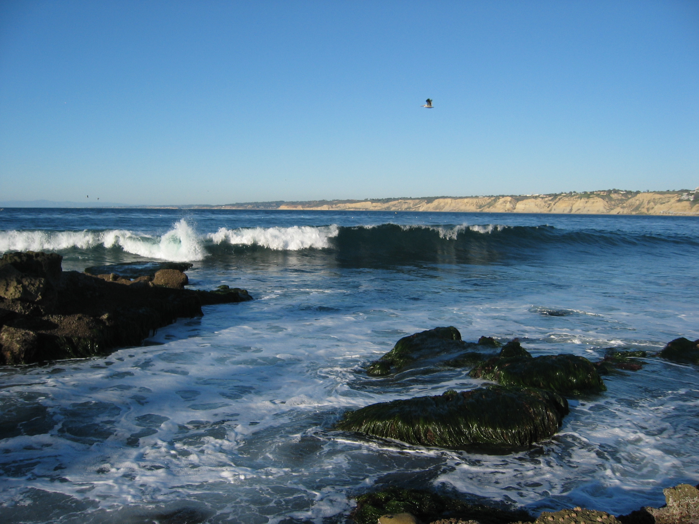 La Jolla, California; view from La Jolla Cove to blacks beach